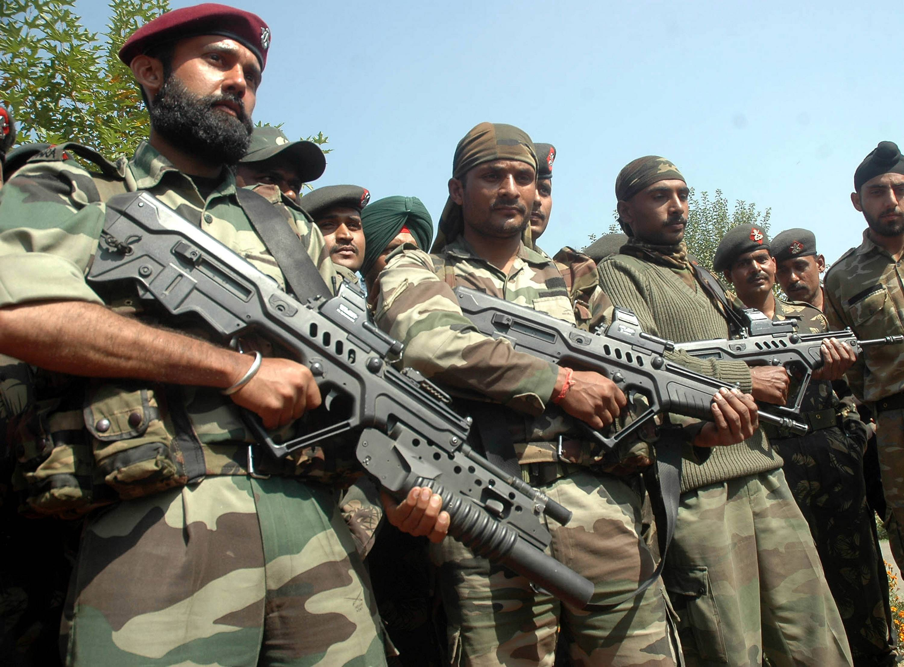 Indian Army Elite 9 Para Commandos